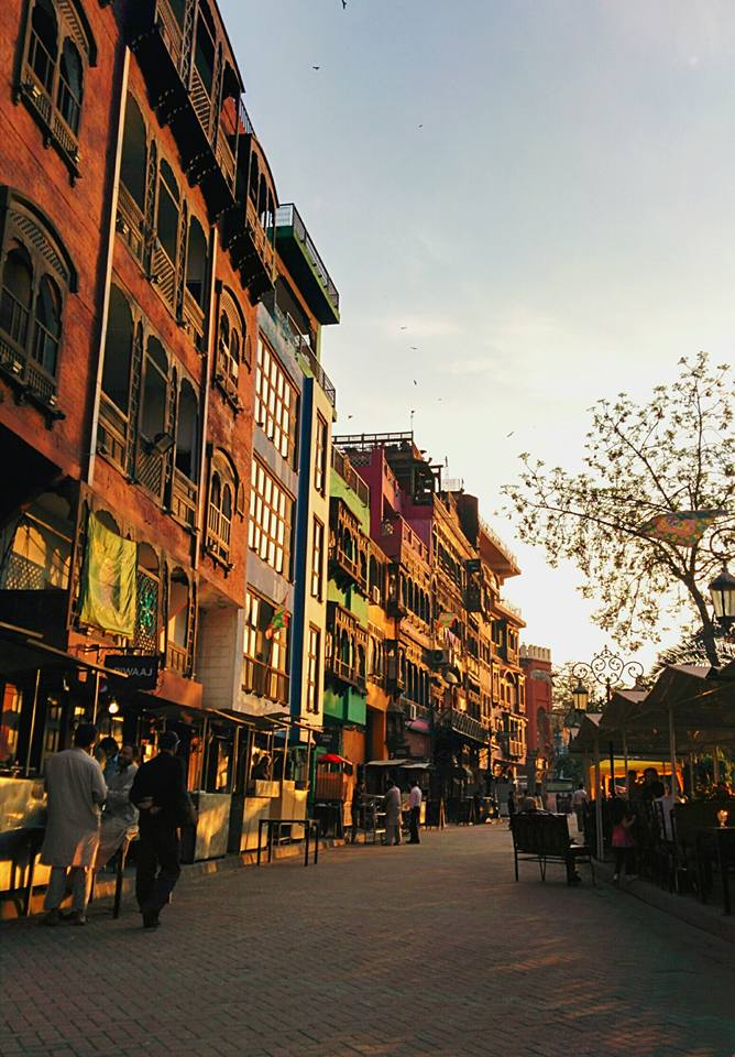 The colorful street in Old Lahore